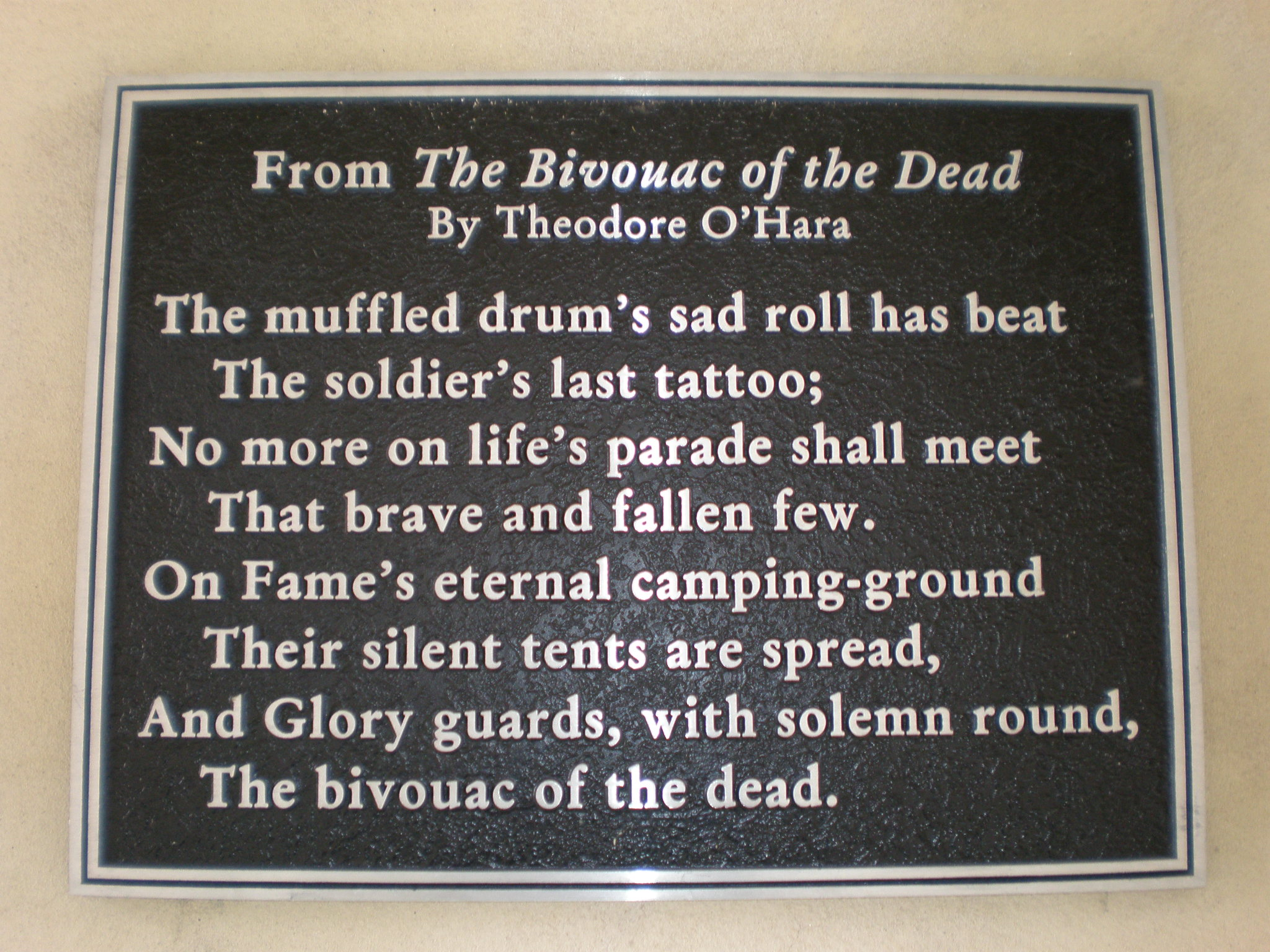 Plaque opposite the entrance to the chapel of Golden Gate National Cemetery in San Bruno, California.